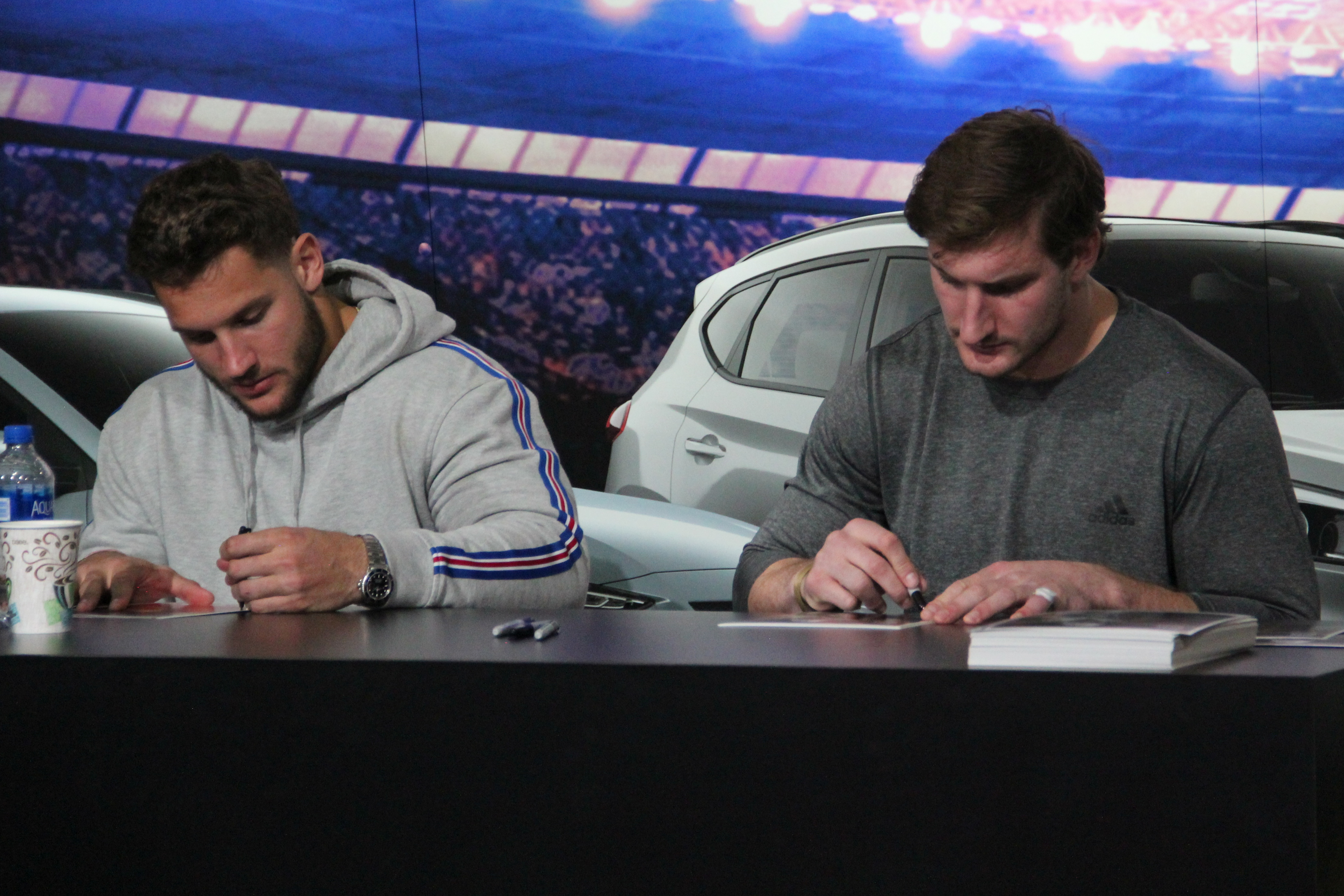 Nick (left) and Joey (right) Bosa at the Super Bowl Experience at Super Bowl LIII